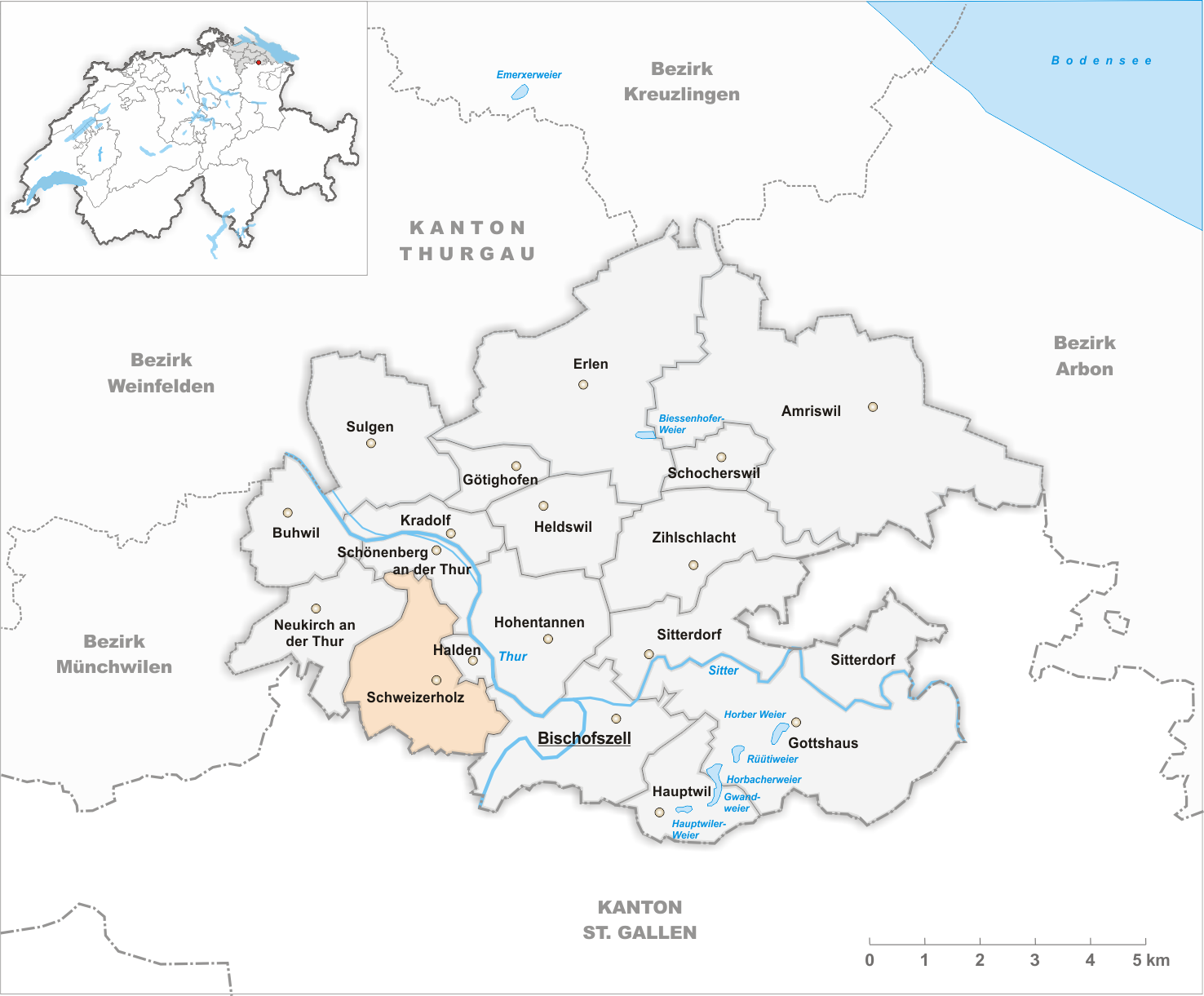 Municipality Schweizersholz